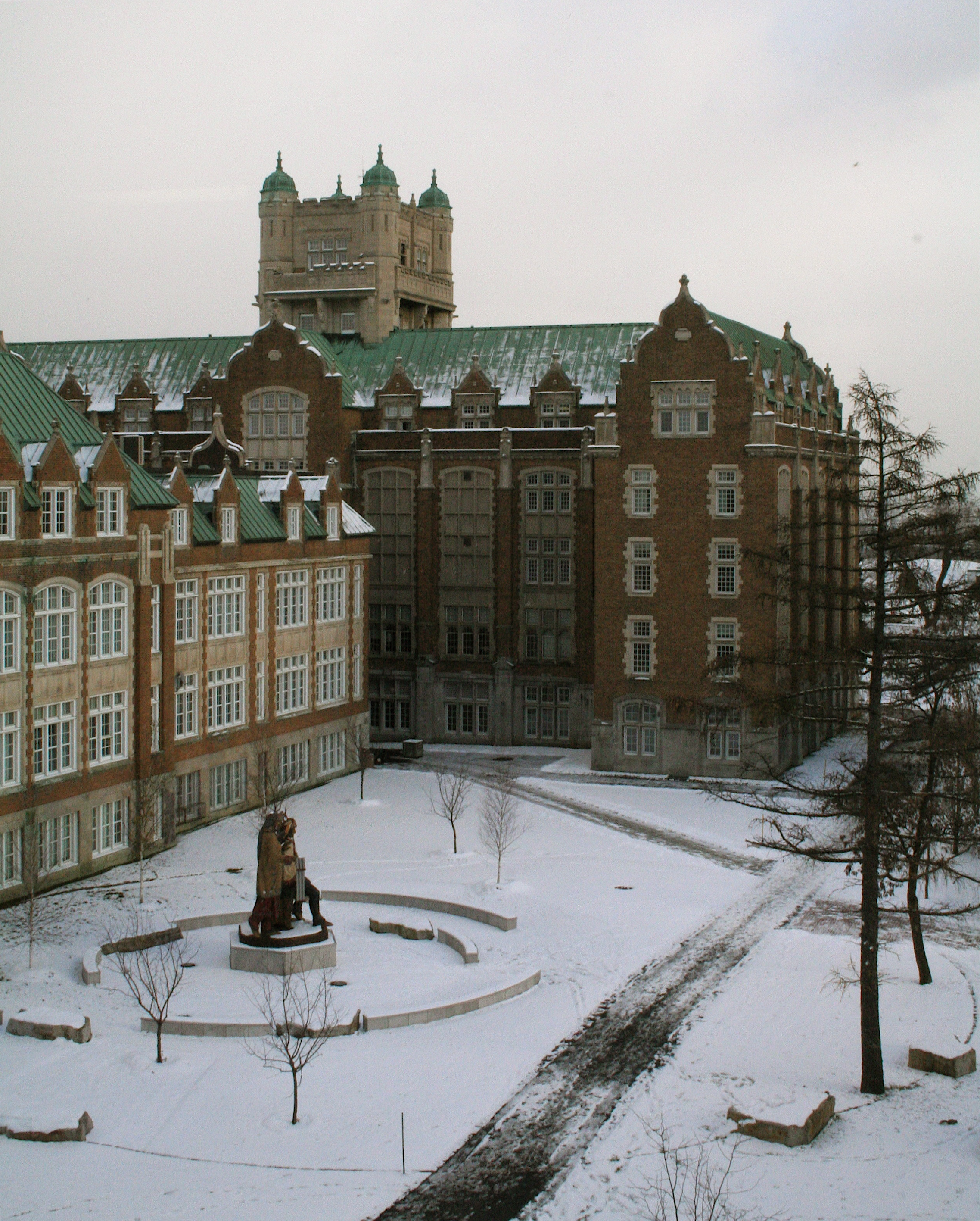 View of Concordia University's Loyola campus in winter.